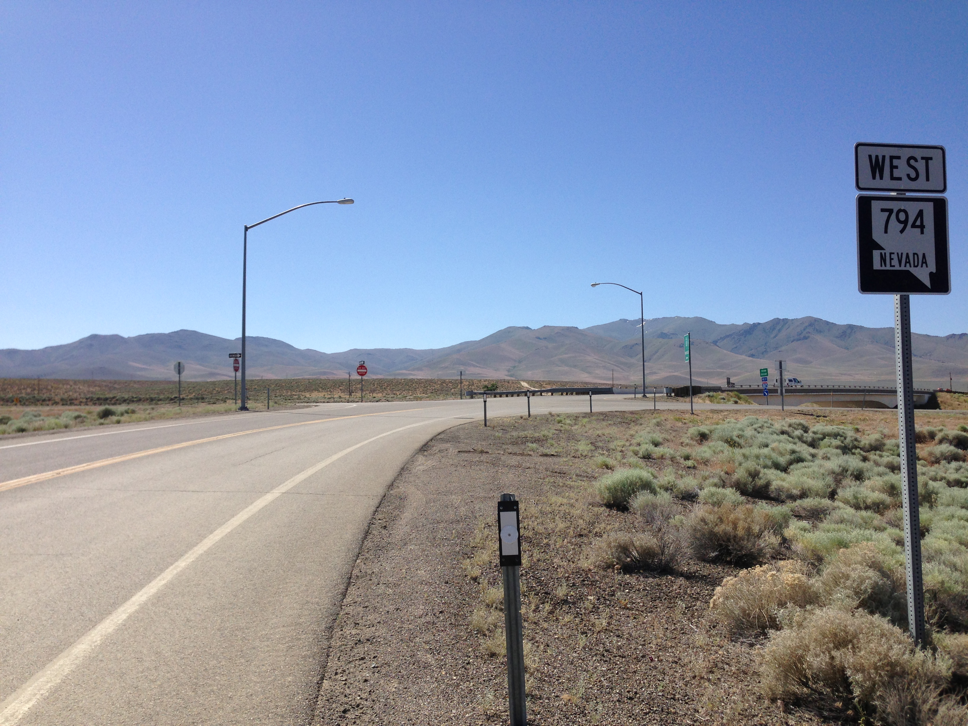 First reassurance sign along westbound Nevada State Route 794 (Pedroli Avenue) northeast of Winnemucca, Nevada